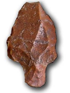 Aterian nosed point